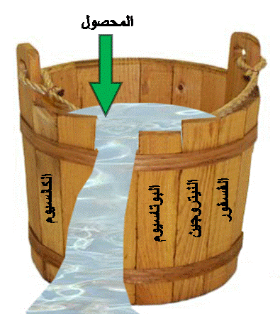 Liebig’s barrel